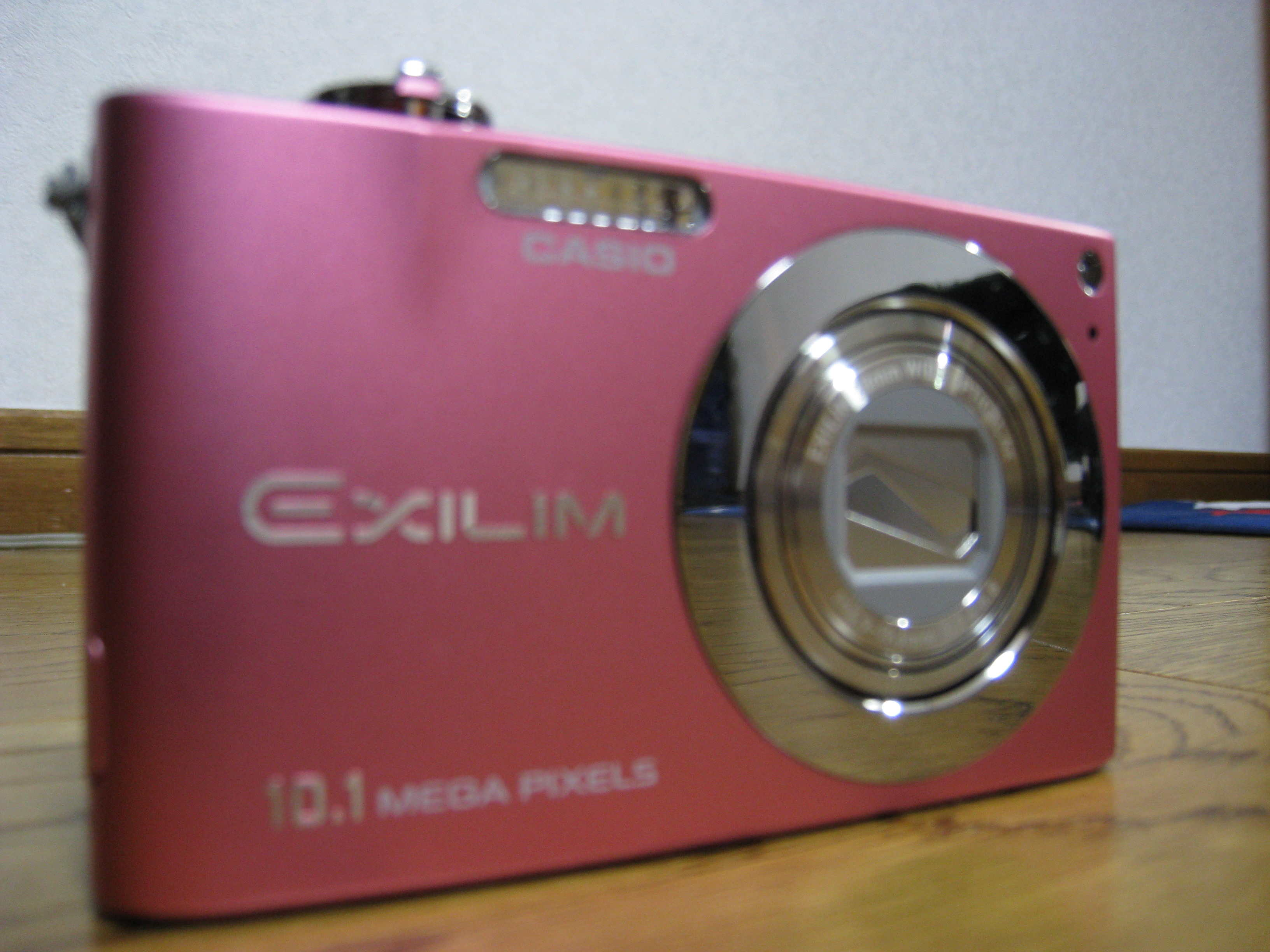 Casio EXILIM EX-Z100 PK